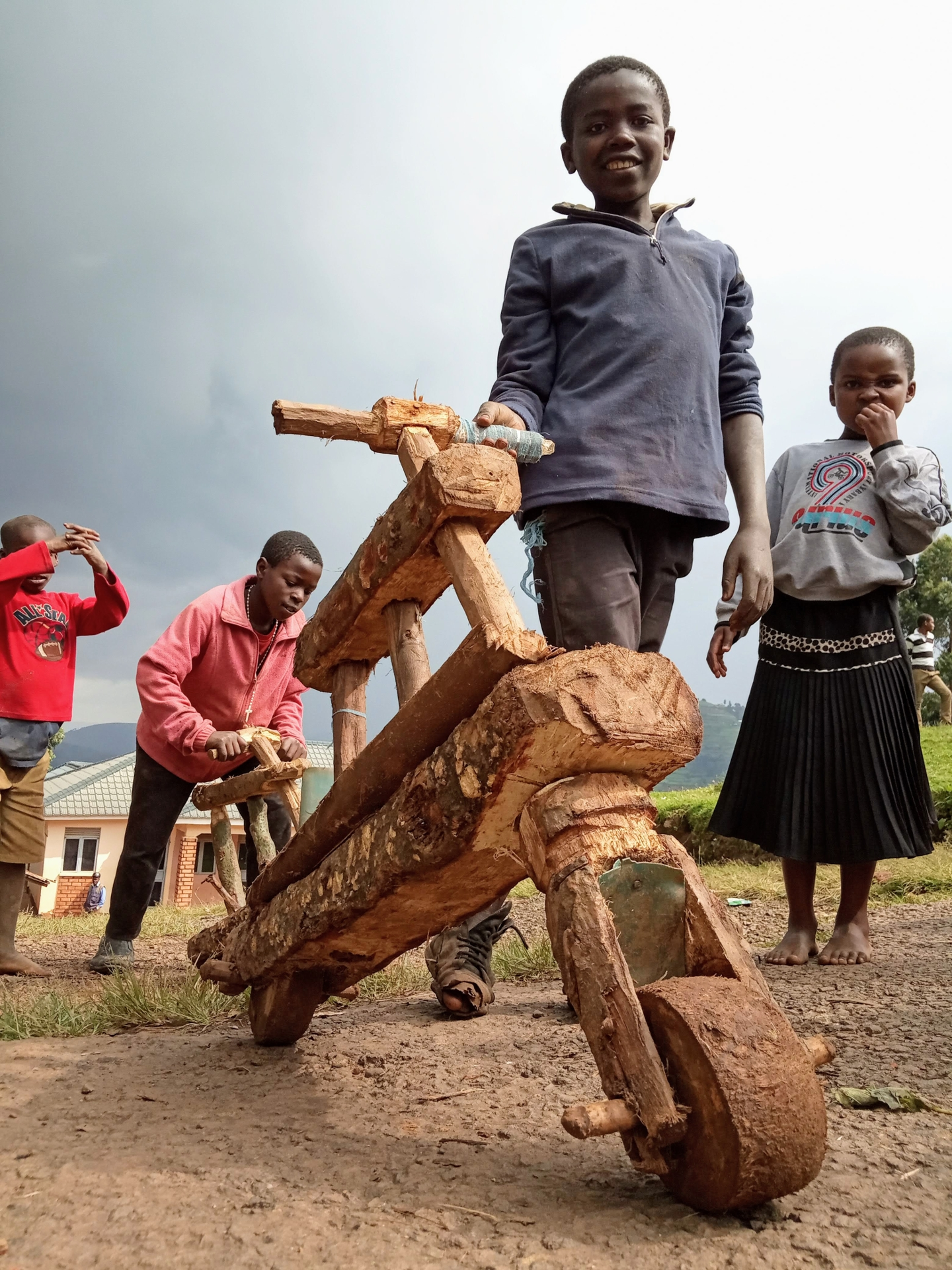 On the mountainous road winding through southwestern Uganda (between the city of Kabale and the town of Kisoro) a young craftsman poses for a photograph alongside a wooden bicycle of his own hand. In Kisoro (~30 kilometers away), a mural featuring a very similar item exists on the walls of the Golden Monkey Hotel. Although this vehicle may not have been constructed according to a blueprint of the boy's own creation, it's definitely an impressive object. The wheels are set on a wooden fork, held in place by the weight of the rider. Although it has no braked and isn't nearly as smooth as a traditional bicycle, it can certainly be used (with several attempts) to successfully roll -- and even steer -- down the steep hills surrounding Lake Bunyoni. However, such a test drive may not be for the feint of heart. Hiligaynon: Wie pii adwong me Bunyoni, man otino tye kede Gali yat. Ka imito nyonyo ping tela, imiero wot Muko. Muko tye nushu I Kisoro me Kabale. Luganda: Tugende. This is an image with the theme "Africa on the Move or Transport" from: Uganda